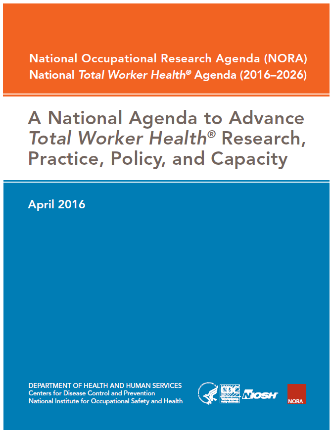 Cover of the National Occupational Research Agenda specific to Total Worker Health